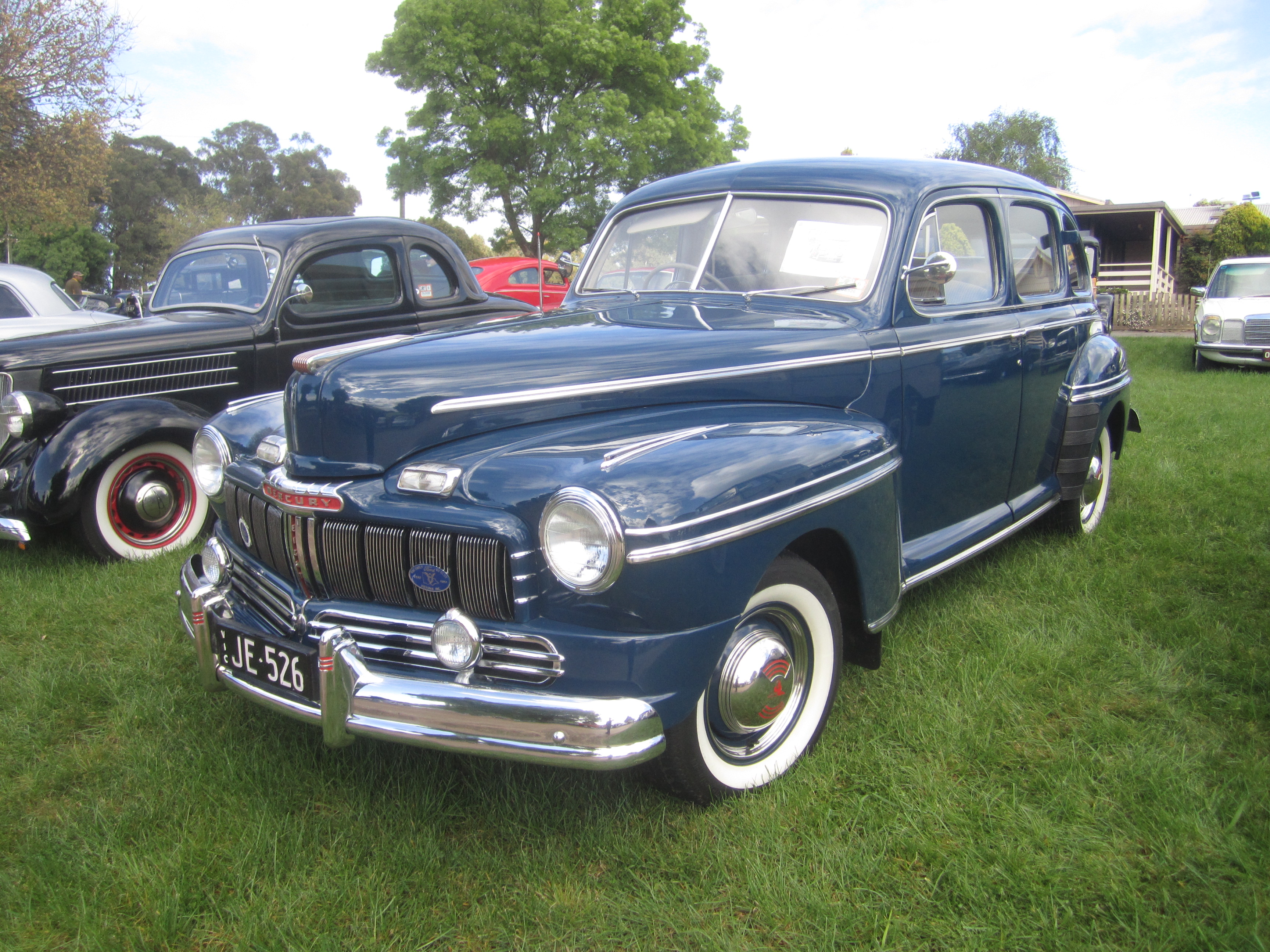 The new styling was introduced in 1941, now a bigger car inside, it shared its body now with Ford. It got new rectangular parkers in 1942 (Bullets in 1941) and a new grille in 1946 (the building of cars put on hold over the war years) In 1947, the border around the grille was chrome plated (painted in 1946) and the Mercury name was placed on the side of the hood. 1948 Mercury Eights were identical to 1947. Engine; 225 cu in Flathead V8